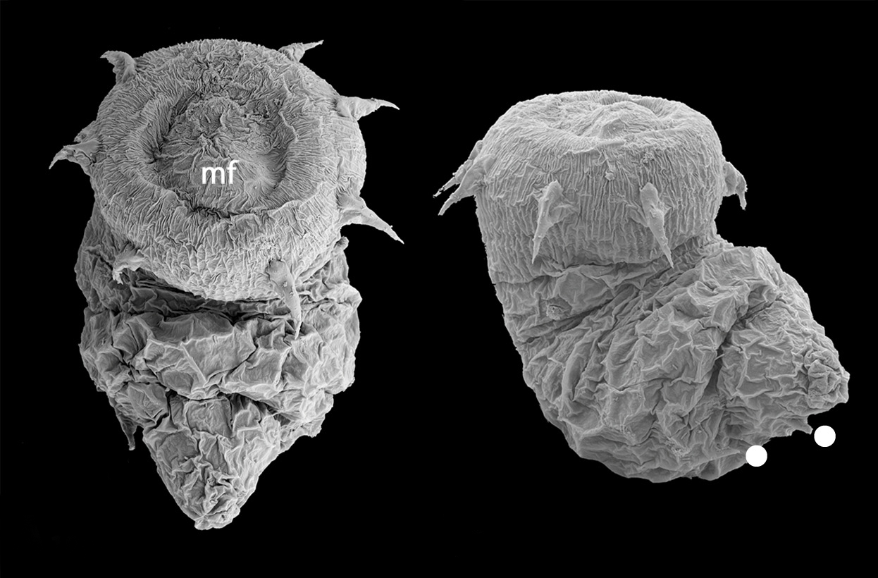 Newly hatched larva of the priapulid Halicryptus spinulosus. Dots denote posterior tubuli. Mouth field (without mouth opening itself) is labeled with "mf".